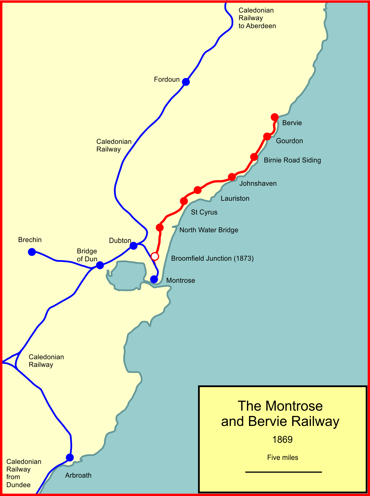 The Montrose and Bervie Railway in 1869